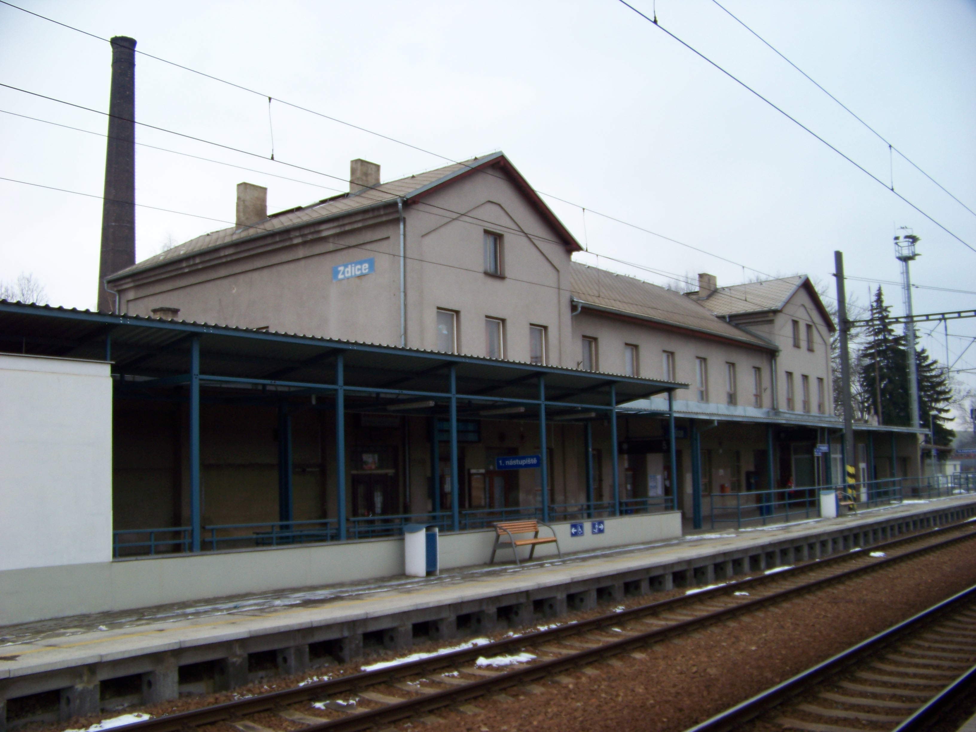 Zdice, Beroun District, Central Bohemian Region, Czech Republic. Train station Zdice.